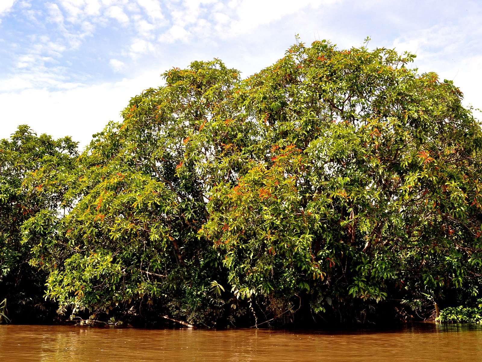 Gluta velutina shrub, at the riverbank of Sambas Kecil River, West Kalimantan, Indonesia